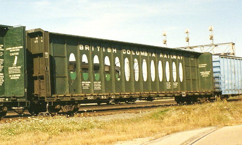 BCIT 871027, a centerbeam flat car. It is seen here in interchange service heading westbound out of BN's Eola Yard, just east of Aurora, October 6, 1992. Photo by Sean Lamb (User:Slambo)